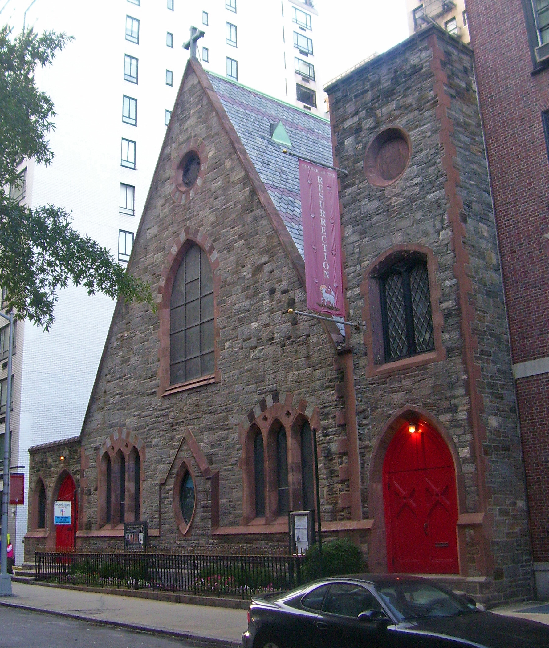 This photo is of Wikis Take Manhattan goal code B19, Church of the Resurrection (Manhattan, New York). cropped and color-corrected by Daniel Case 2010-04-08